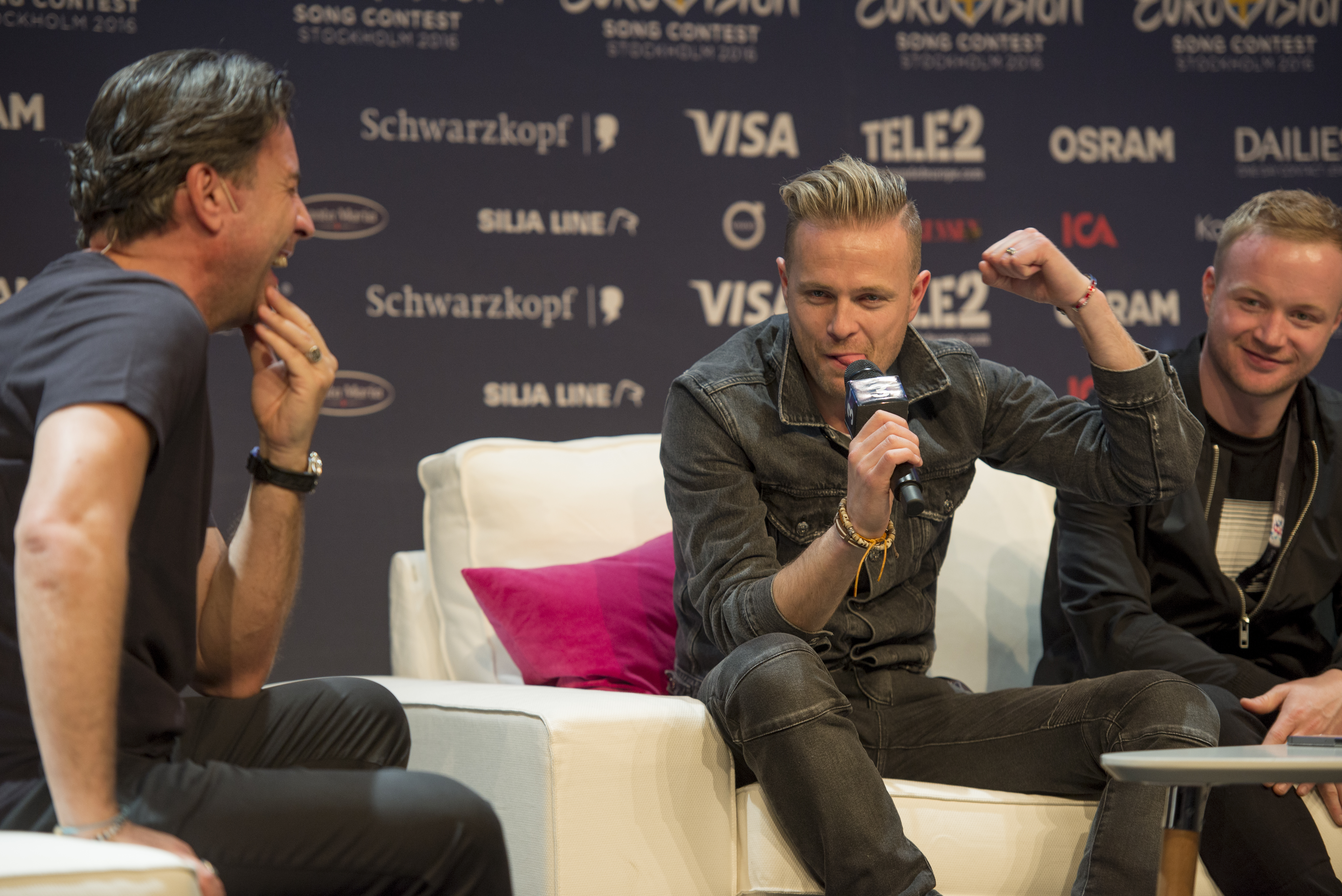 Nicky Byrne at a Meet & Greet during the Eurovision Song Contest 2016 in Stockholm. (Help translate this text)